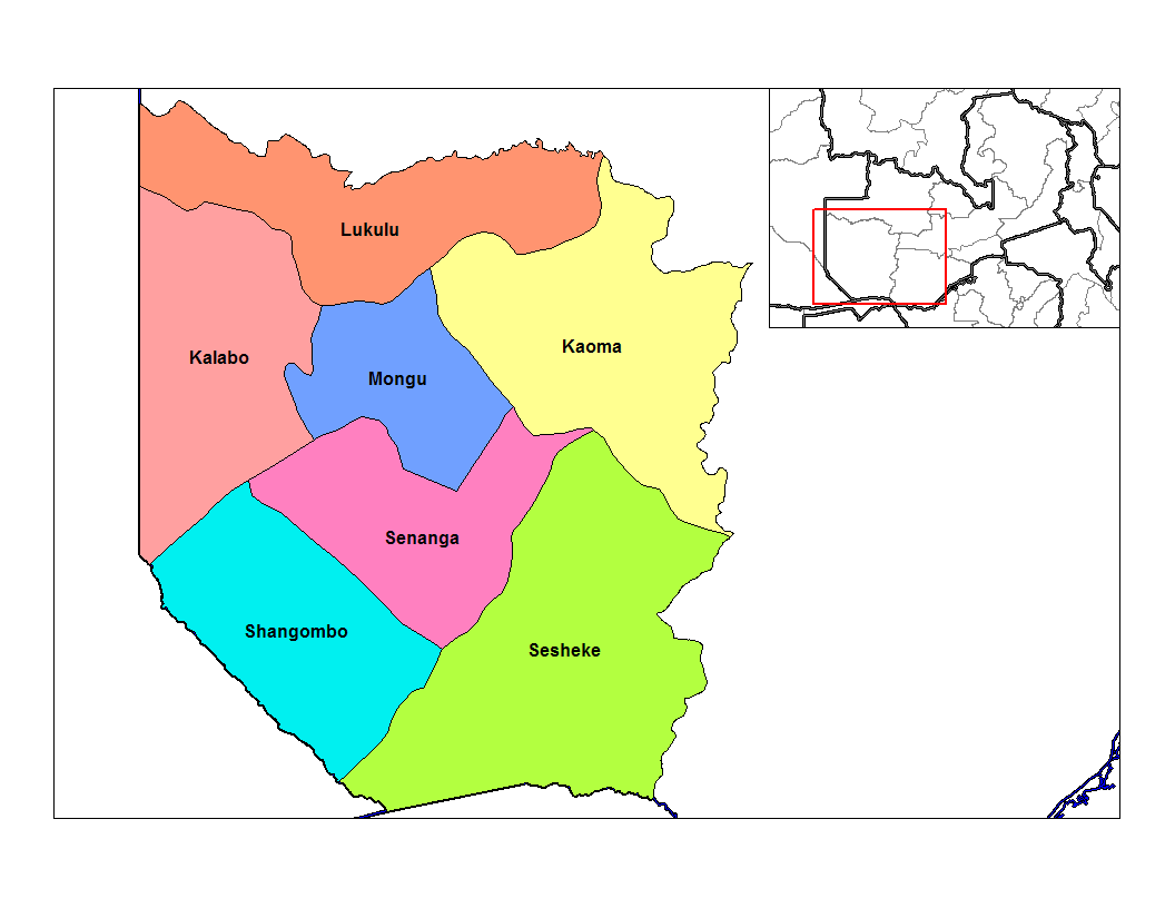 Map of the districts of Western province in Zambia. Created by Rarelibra 15:37, 28 December 2006 (UTC) for public domain use, using MapInfo Professional v8.5 and various mapping resources.